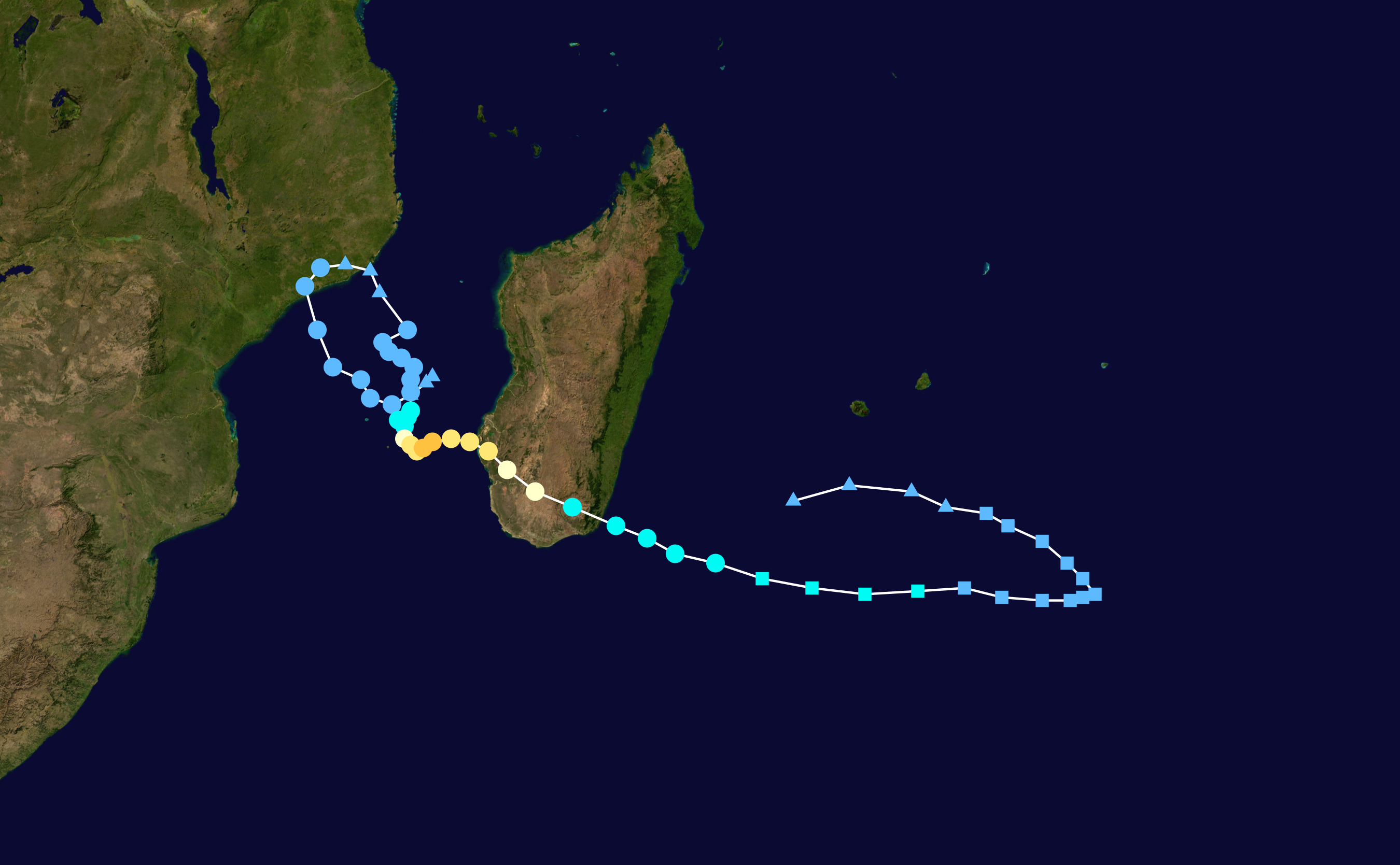 Track map of Tropical Cyclone Haruna of the 2012-13 South West Indian Ocean cyclone season. The points show the location of the storm at 6-hour intervals. The colour represents the storm's maximum sustained wind speeds as classified in the Saffir–Simpson scale (see below), and the shape of the data points represent the nature of the storm, according to the legend below. Saffir–Simpson scale Tropical depression≤38 mph≤62 km/h Category 3111–129 mph178–208 km/h Tropical storm39–73 mph63–118 km/h Category 4130–156 mph209–251 km/h Category 174–95 mph119–153 km/h Category 5≥157 mph≥252 km/h Category 296–110 mph154–177 km/h Unknown Storm type Tropical cyclone Subtropical cyclone Extratropical cyclone / Remnant low / Tropical disturbance / Monsoon depression